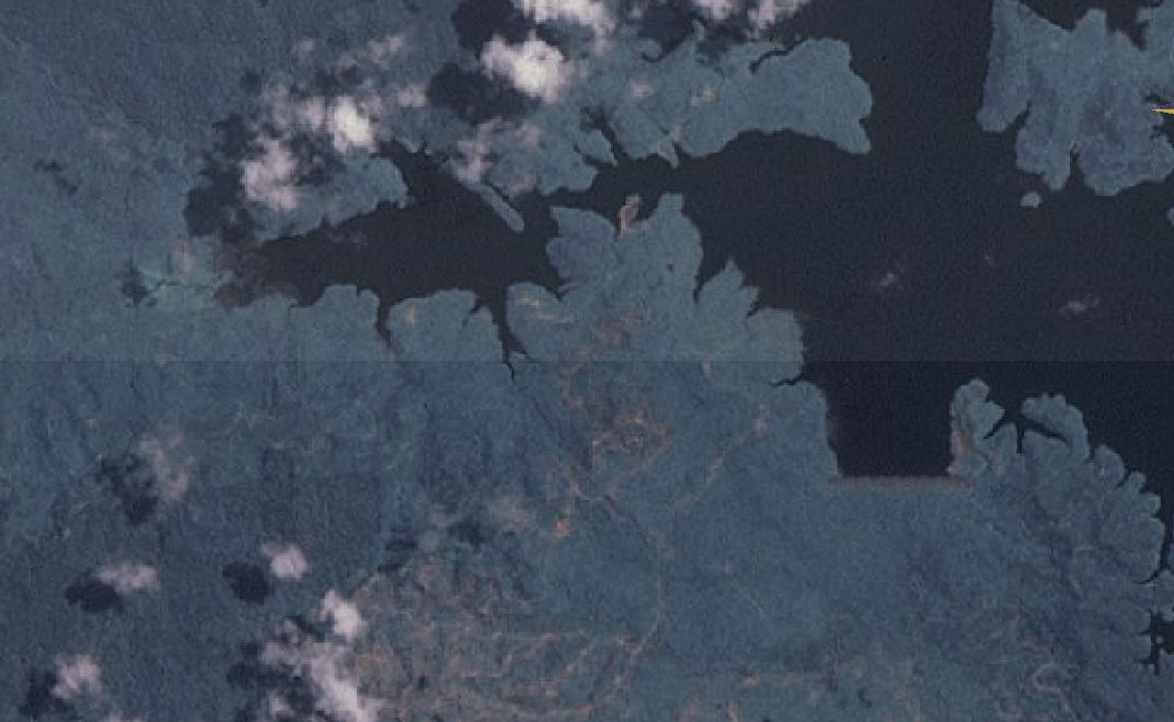 Kota Gelanggi Linggui Dam as shown in a satellite photo.